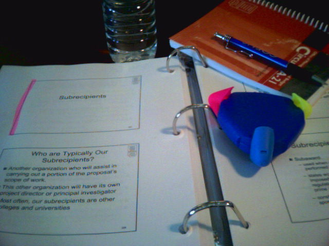 Nothing is more fun than three ring binders.